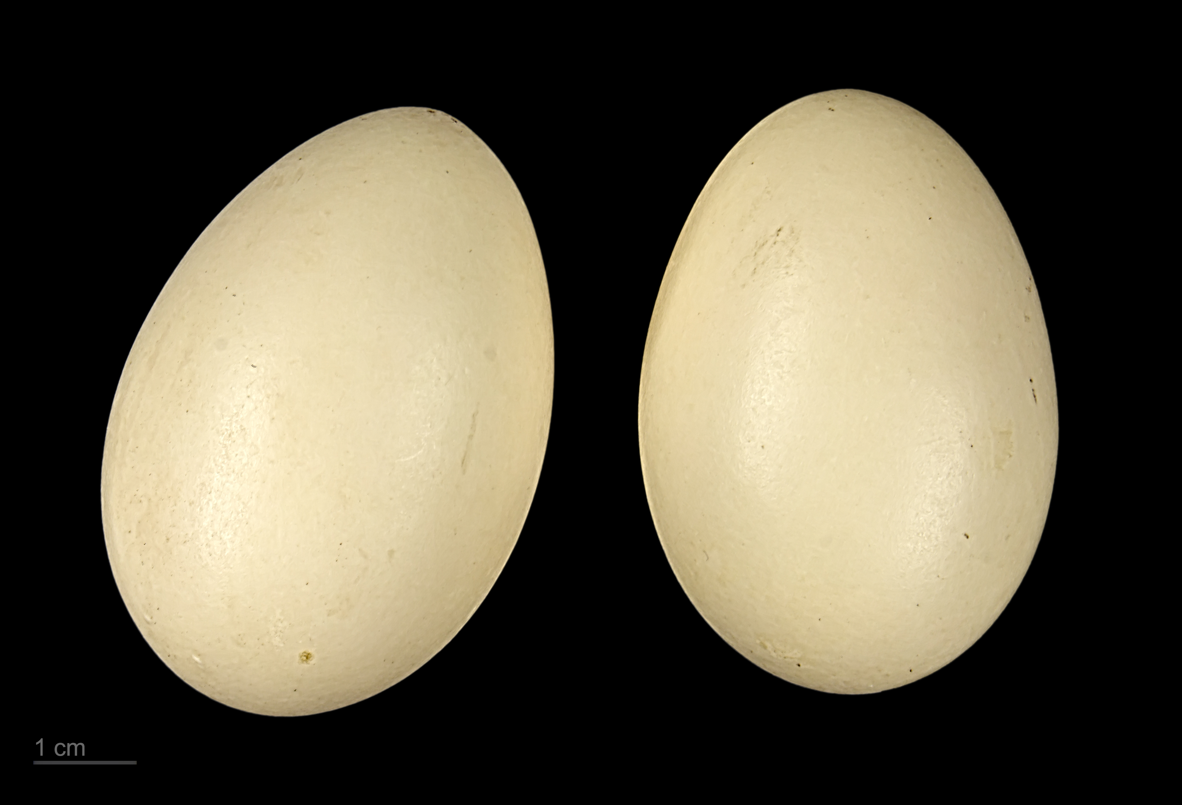 Eggs of Puna teal Two specimens of the same spawn ; collection of Jacques Perrin de Brichambaut.